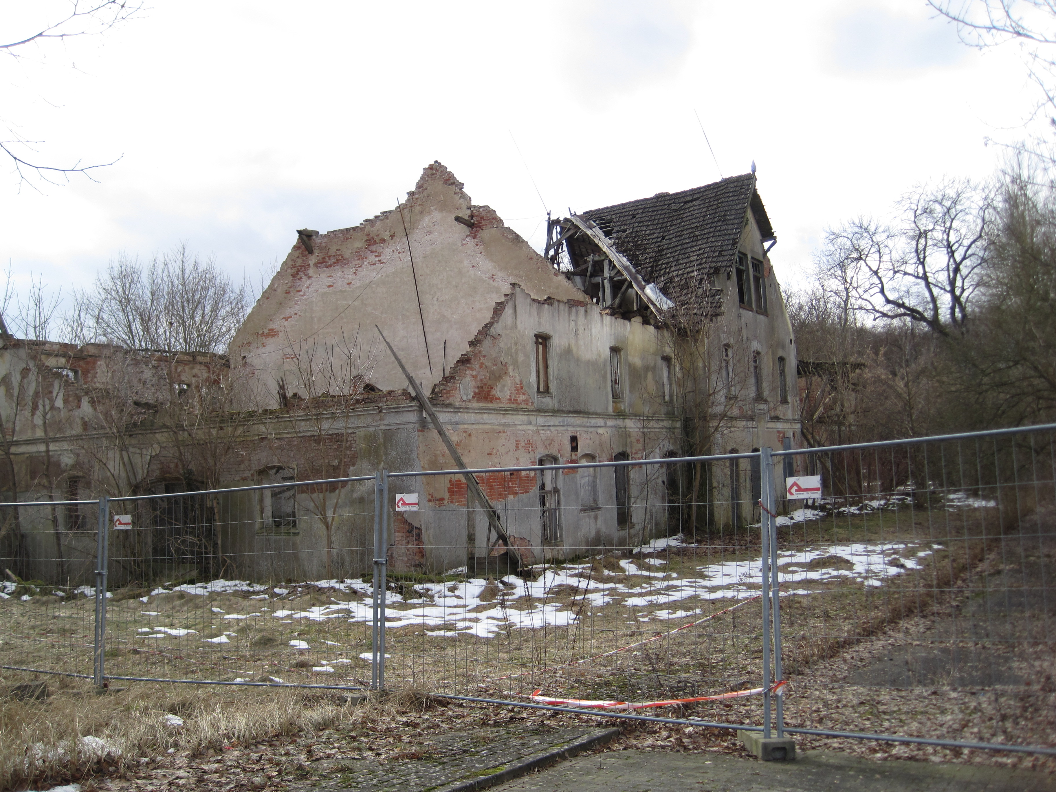 Ruins of the stable of manor in Gresse, west of Zarrentiner Straße, Mecklenburg-Vorpommern, Germany